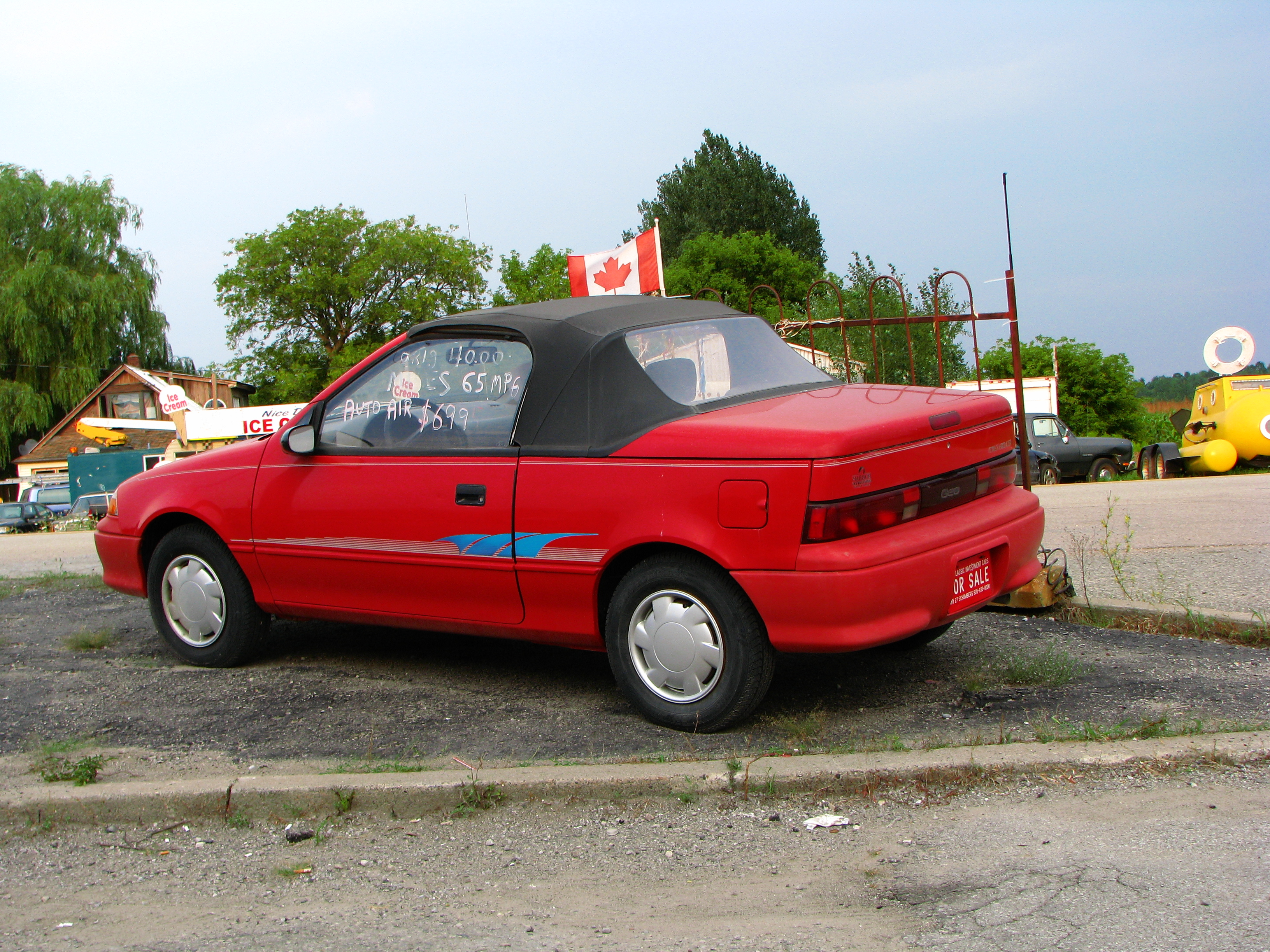 Only $699? Hmmm! And 65 MPG :P! Who needs a smart car when you can get this for a fraction of the cost! I wish I had the space for this...